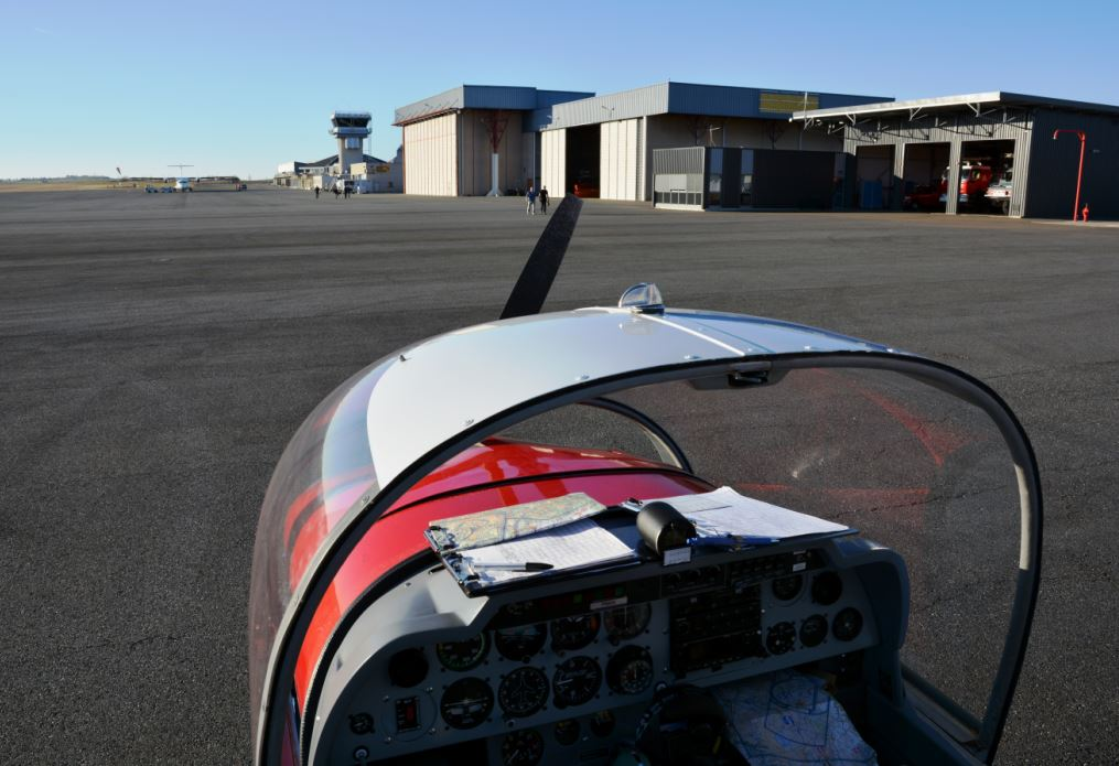 Rodez airport - tarmac